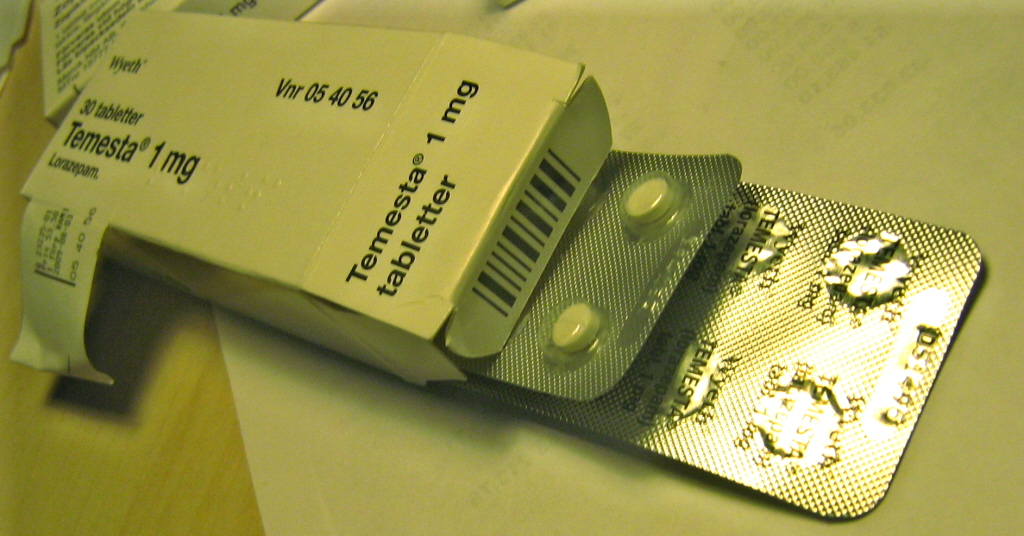 A box of 1 mg Temesta pills containing lorazepam.